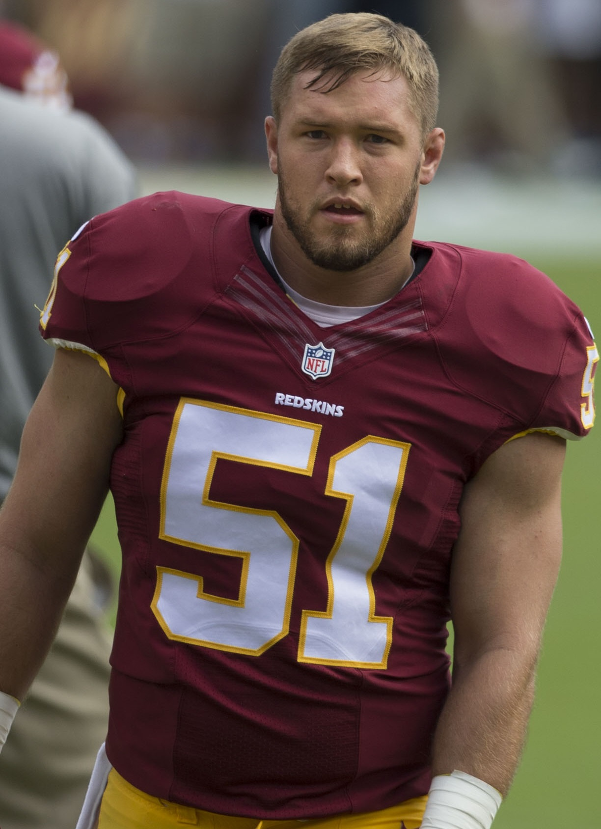 Dolphins at Redskins 9/13/15